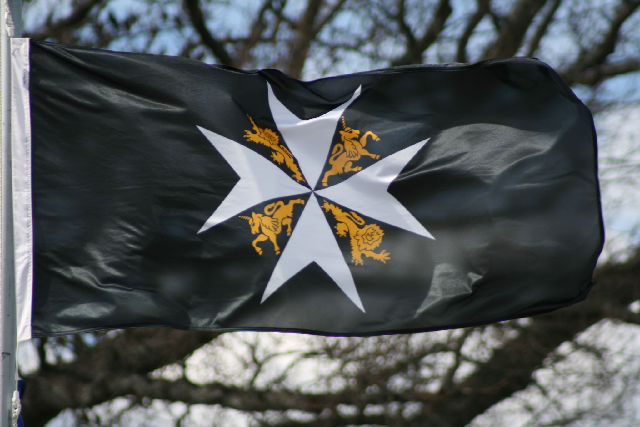 Flag of St John Ambulance in New Zealand, flown at Waddington, Canterbury.